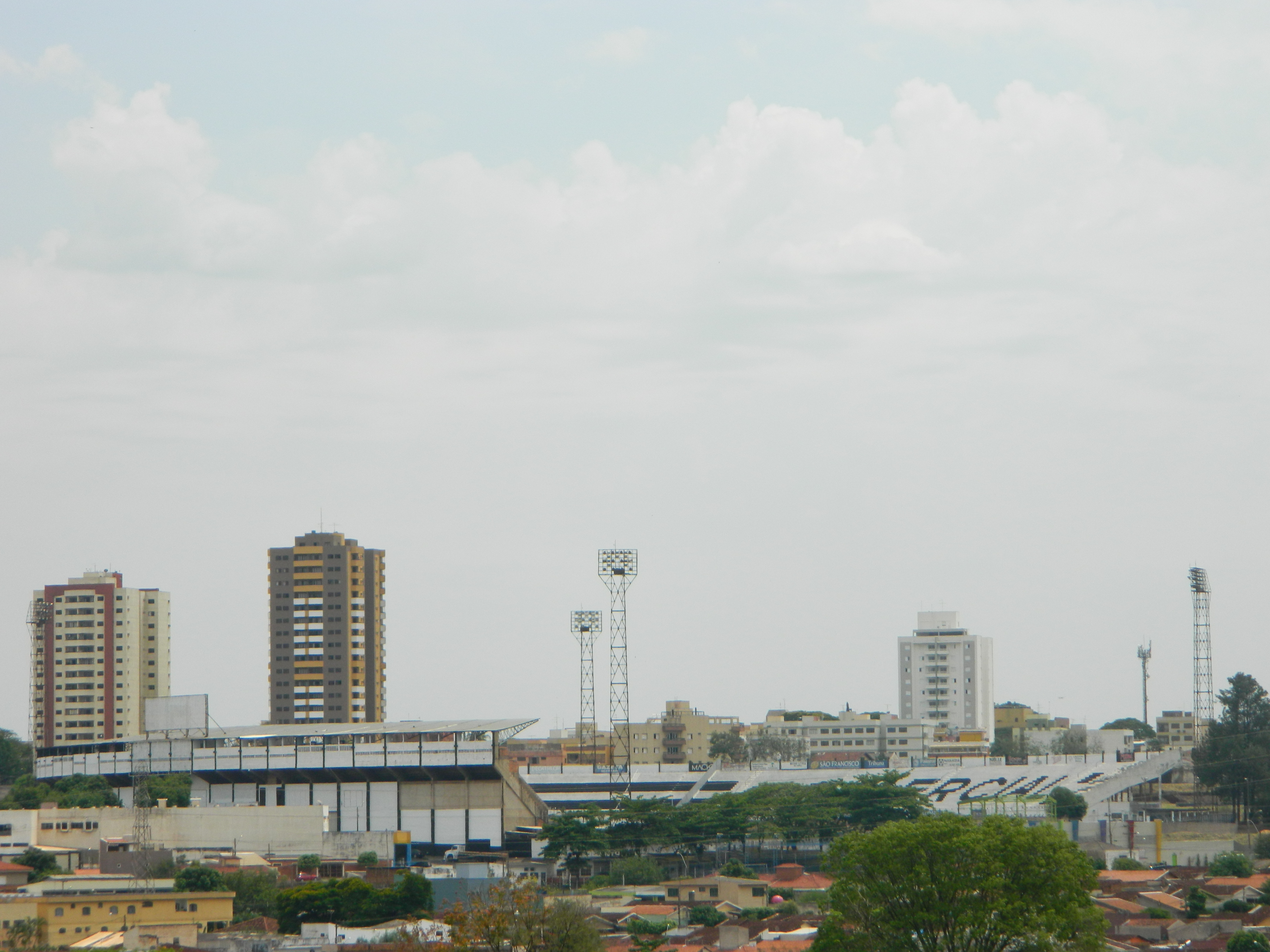 Stadium Dr. Francisco de Palma Travassos, the Commercial Club Soccer, Ribeirão Preto, state of São Paulo.